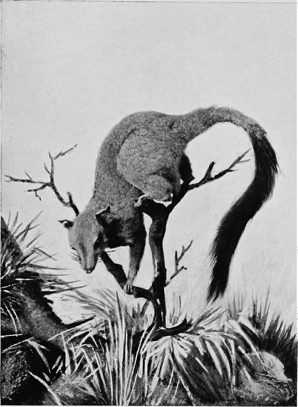 Phascogale